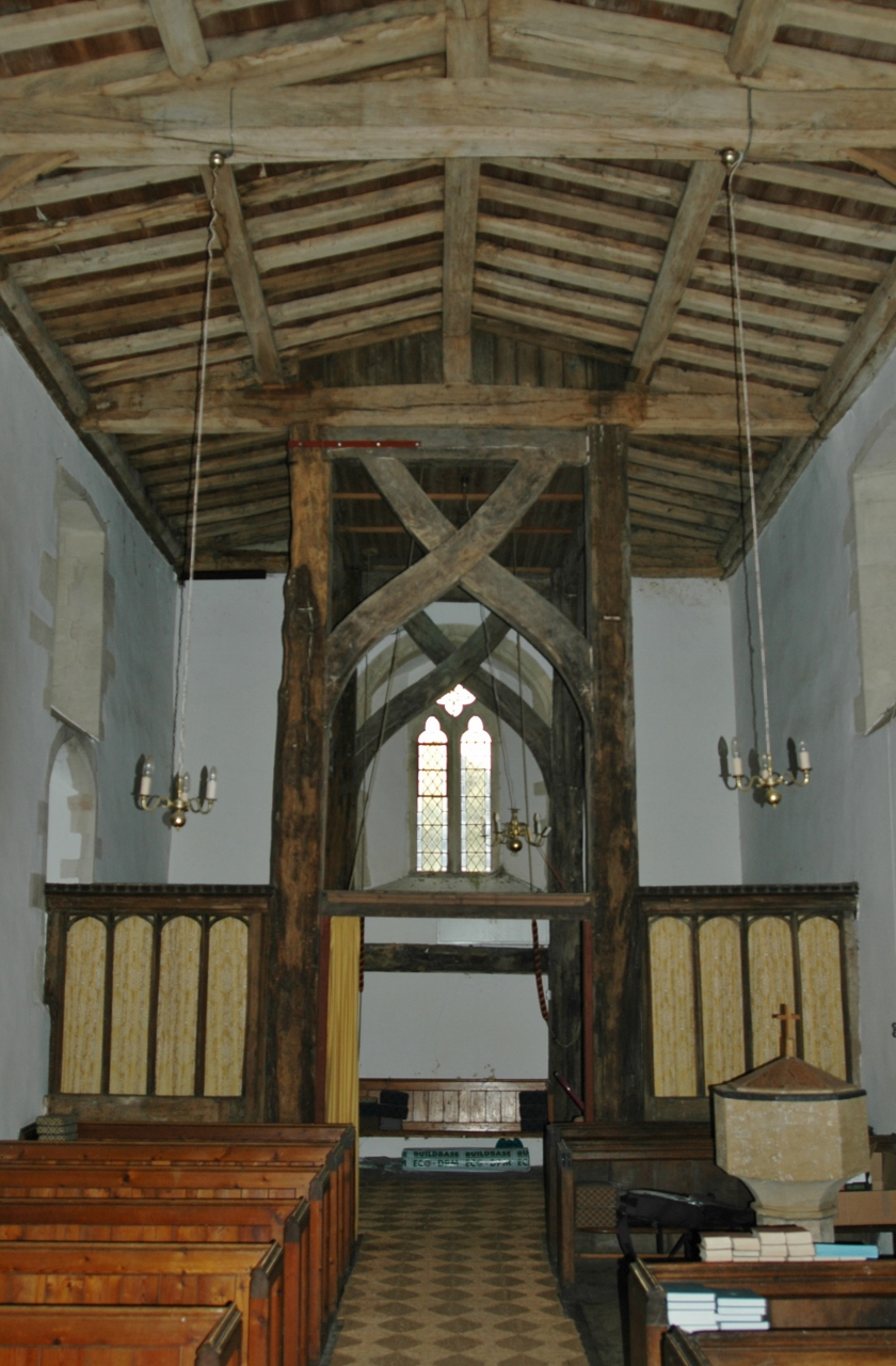 15th-century timber frame of the bell-turret of St Mary's parish church, Lyford, Oxfordshire (formerly Berkshire)